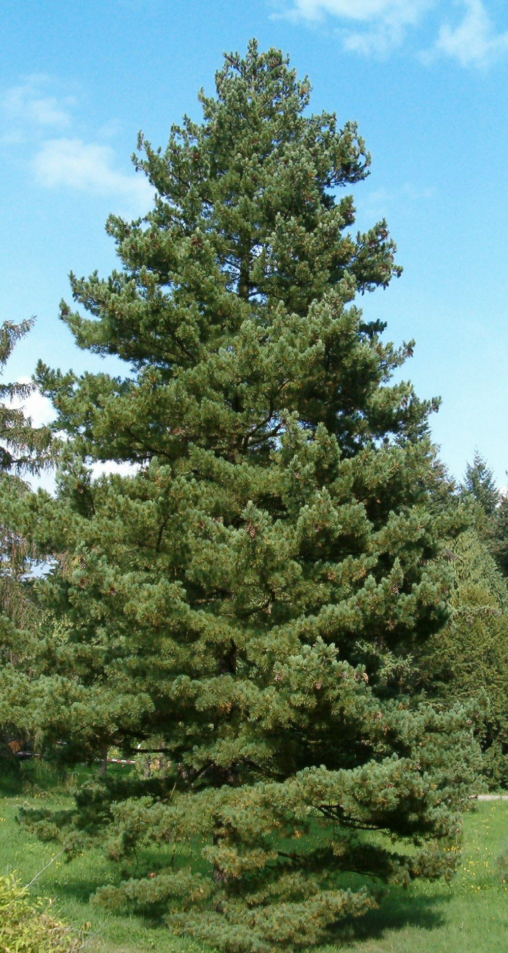 Pinus peuce in Berlin-Dahlem Botanical Garden and Botanical Museum